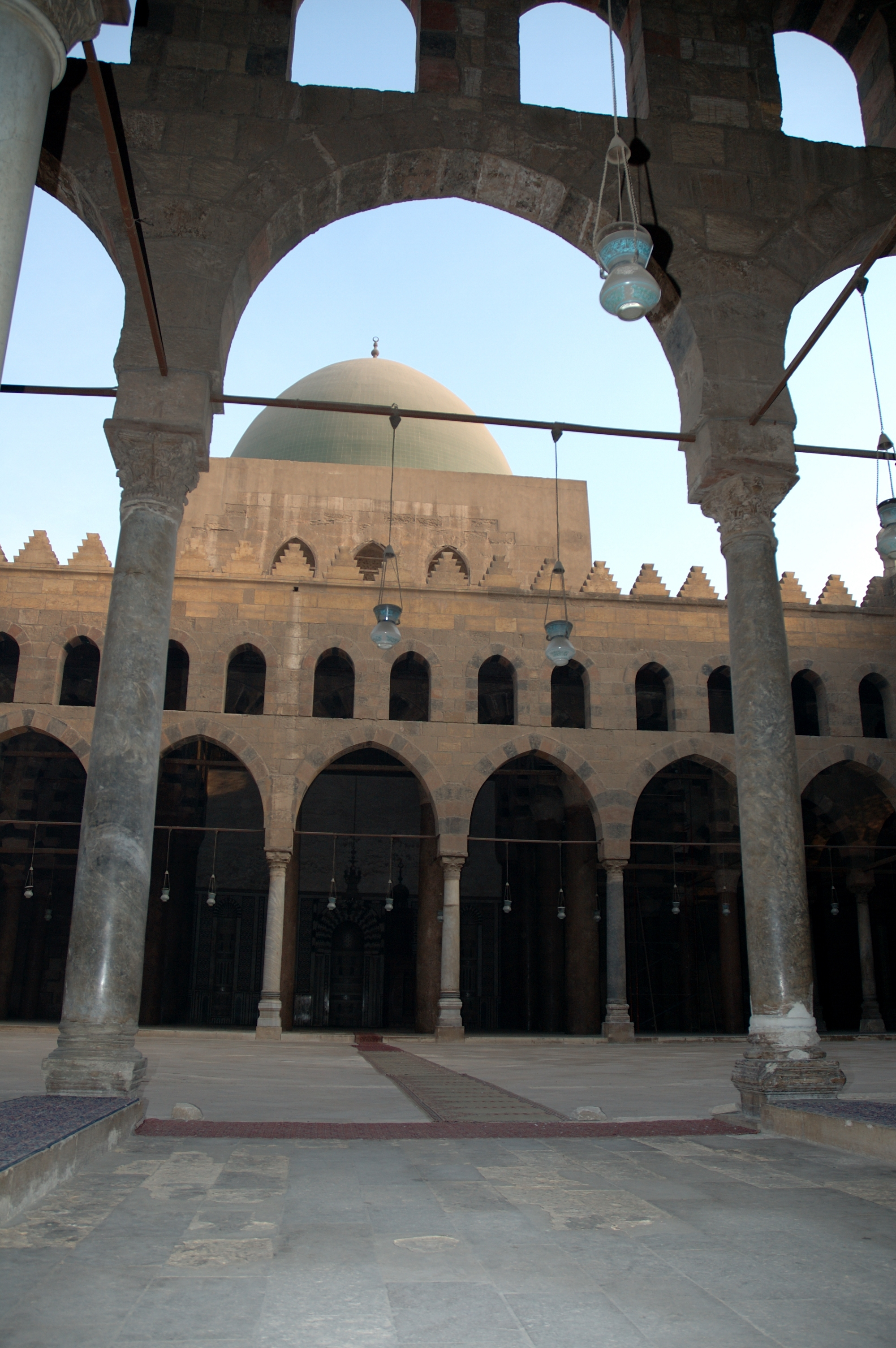 An entrance to the Mosque